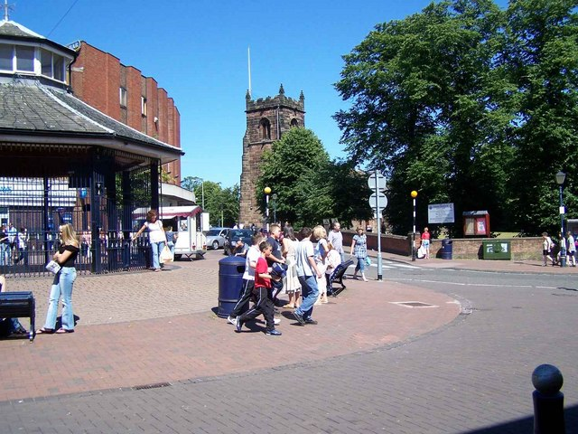 Market Place, Cannock.